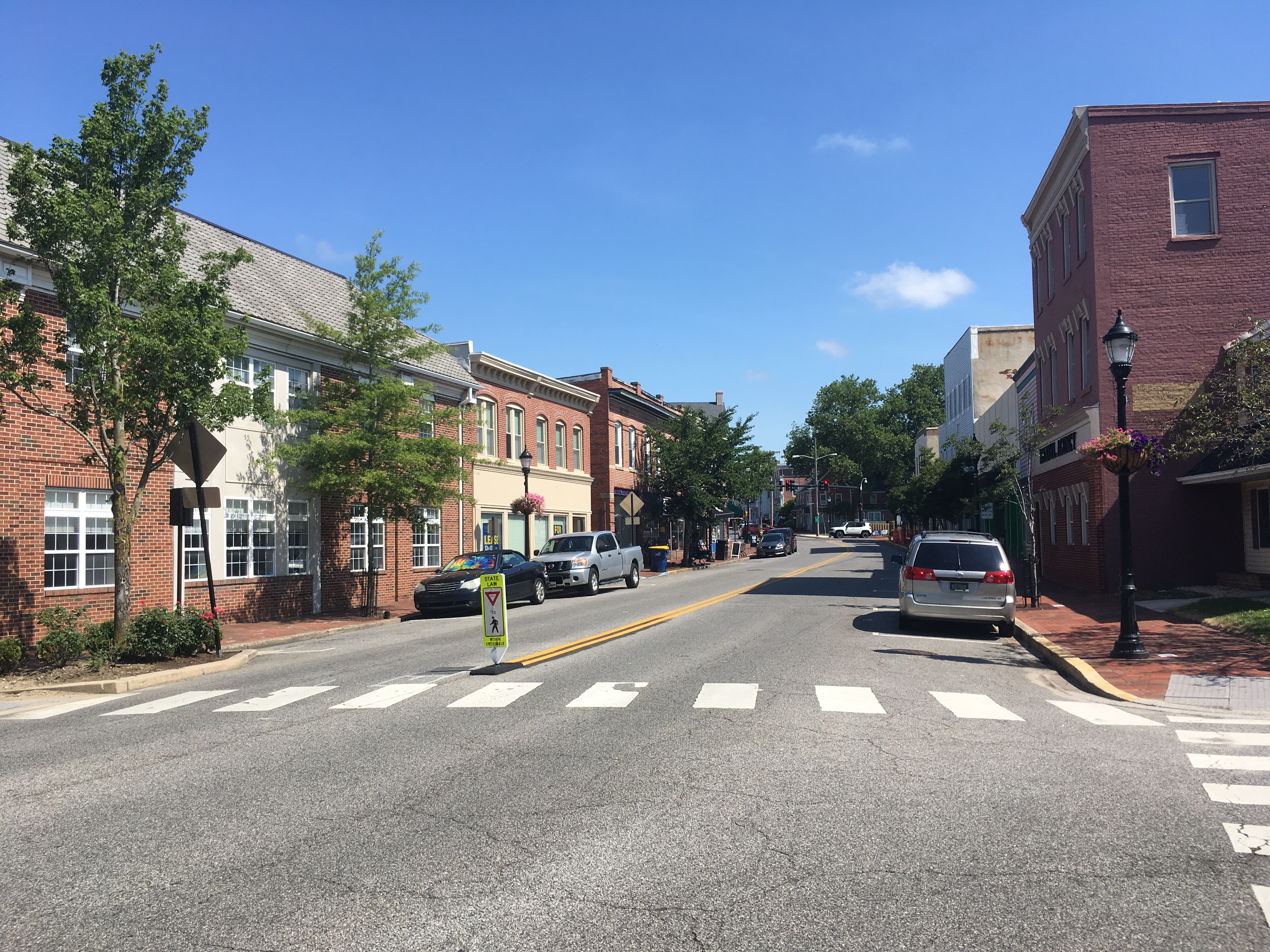 Northbound Walnut Street at the intersection with Park Avenue in Milford, Delaware